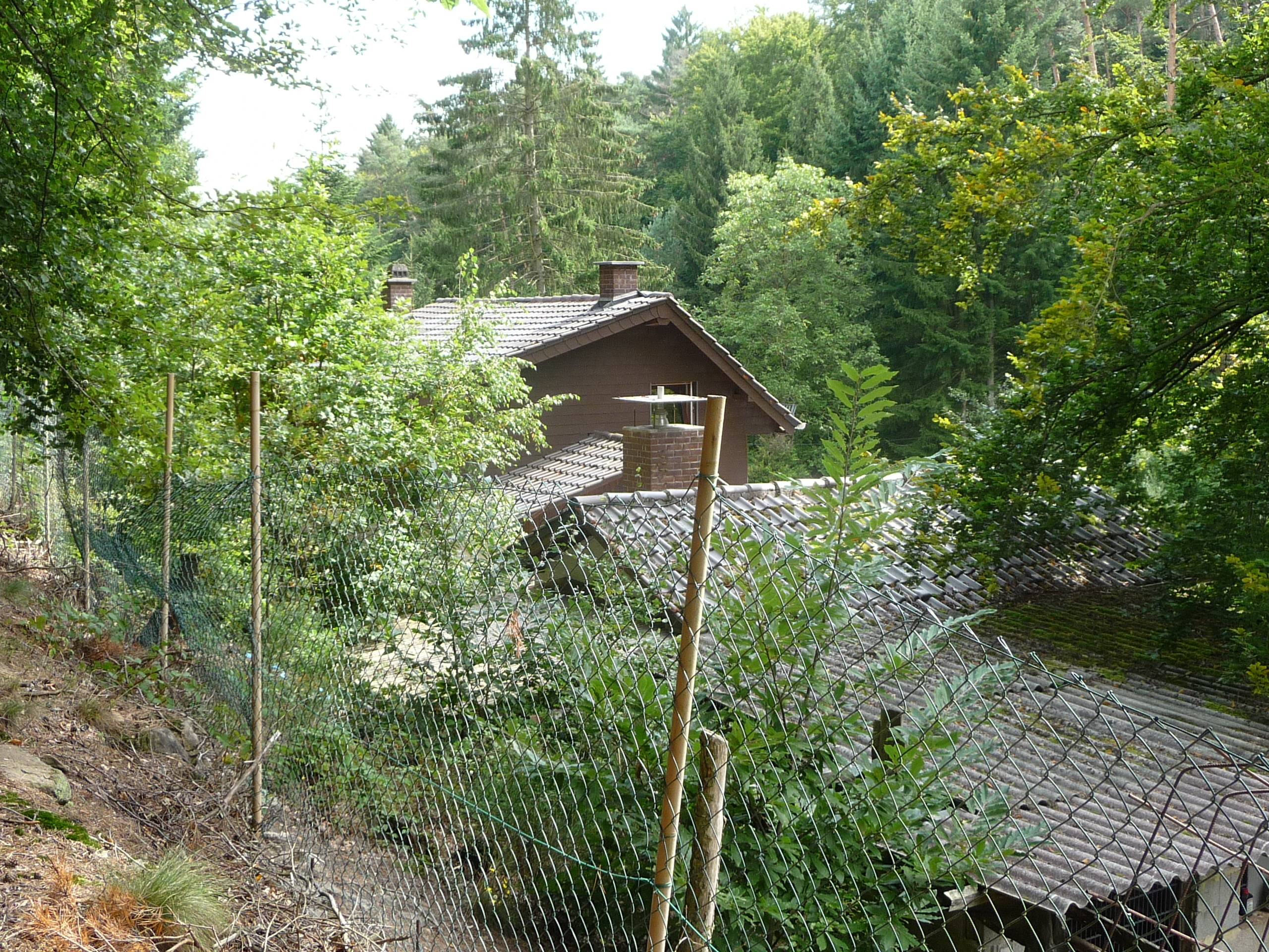 Forest